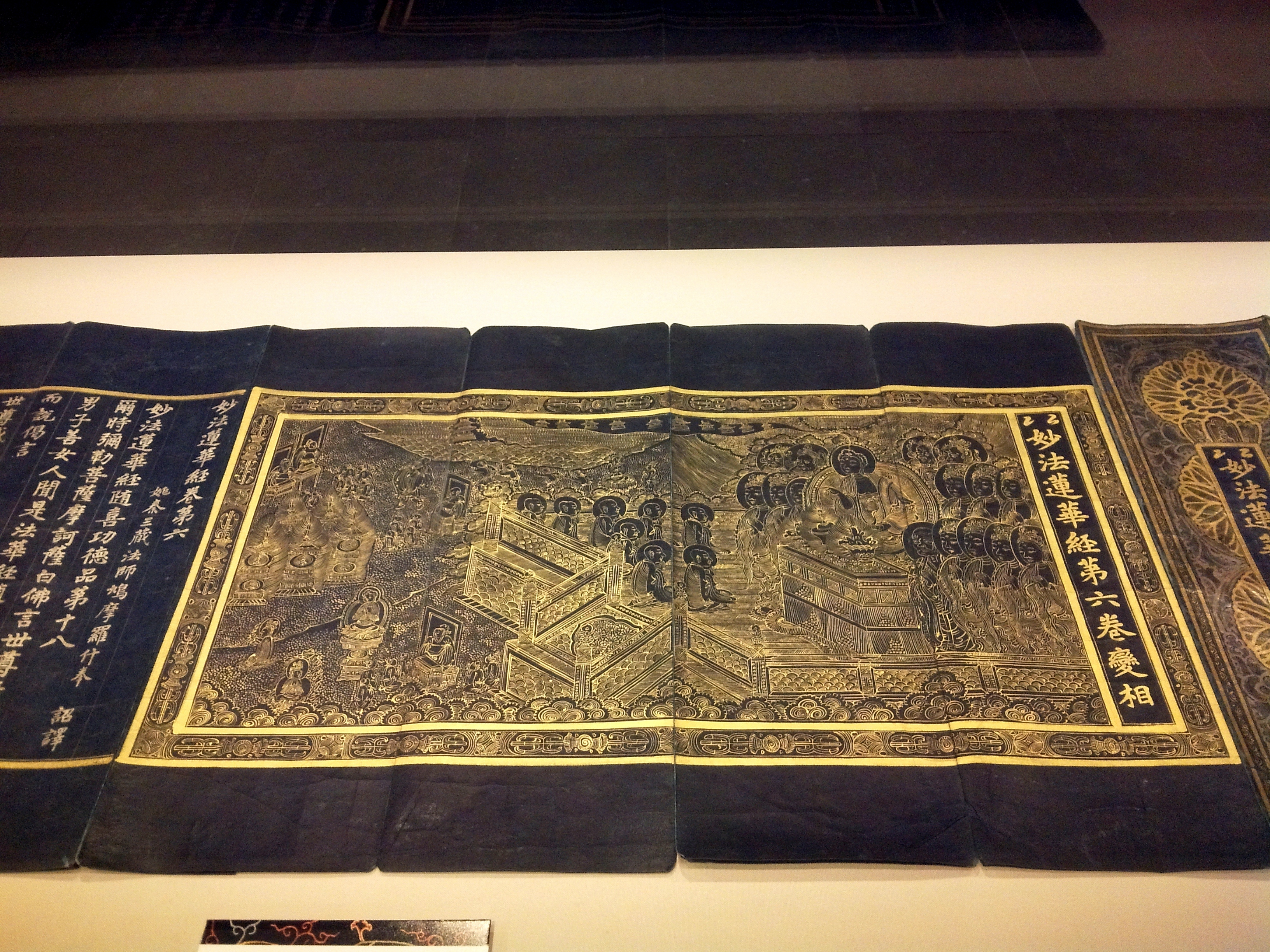 Goryeo-Illustrated manuscript of the Lotus Sutra from Gwangdeoksa temple in Chenan, Korea